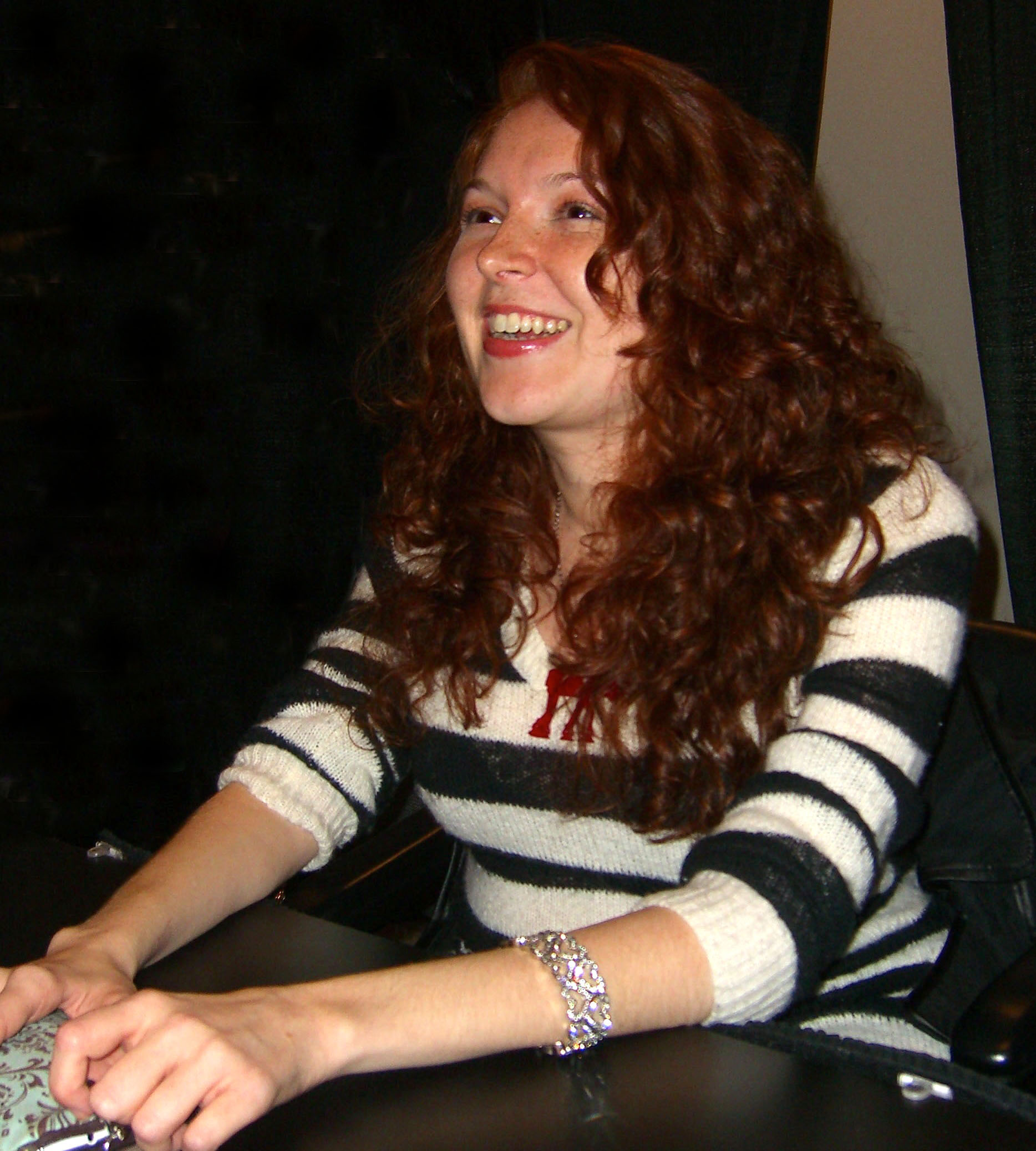 Journalist, blogger and cosplayer Jill Pantozzi following a panel discussion on The Psychology of Cosplay on Day 2 of the 2012 New York Comic Con, Friday October 12, 2012 at the Jacob K. Javits Convention Center in Manhattan. This photo was created by Luigi Novi. It is not in the public domain, and use of this file outside of the licensing terms is a copyright violation.